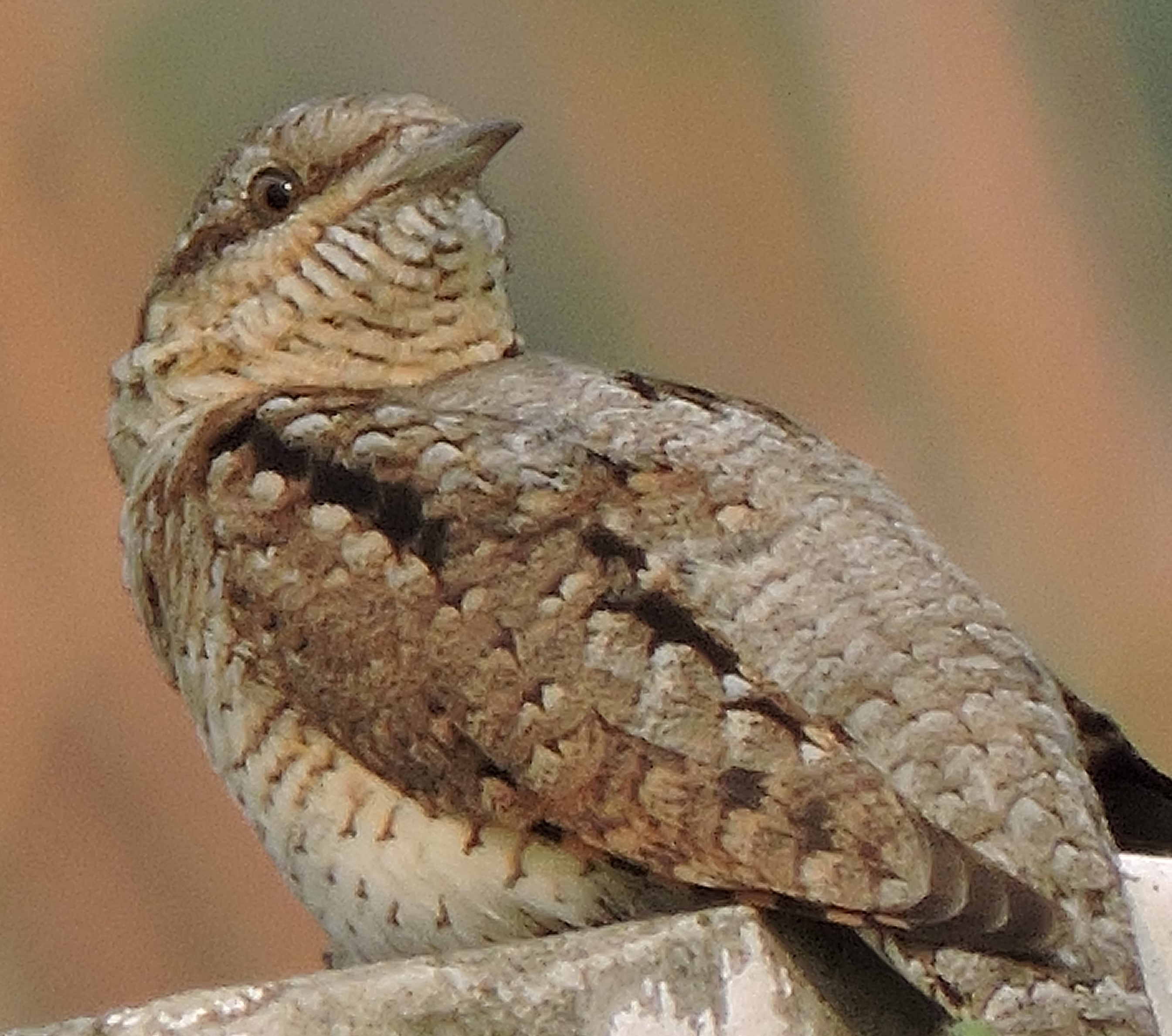 Wryneck, Village, Behlolpur, district Mohali, Punjab, India